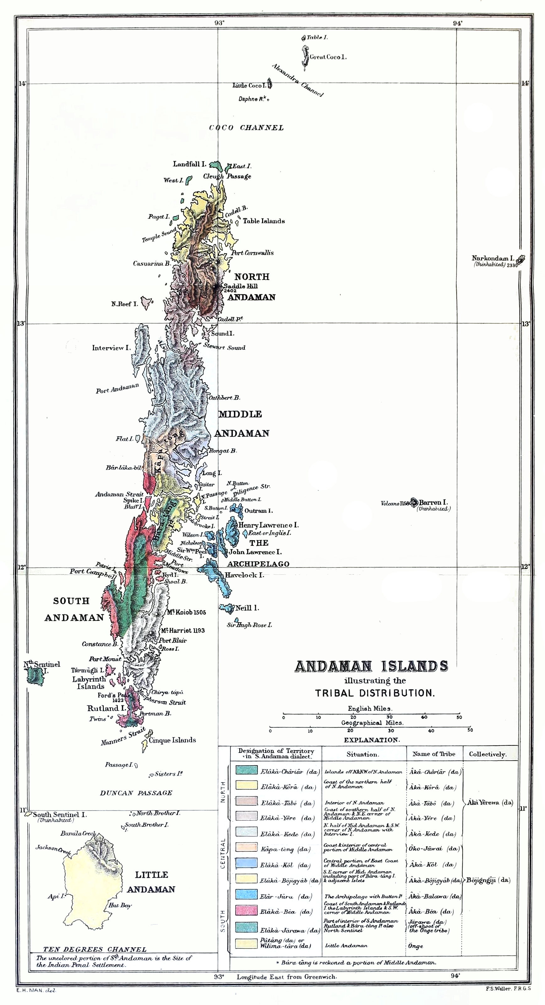 Distributions of the Andaman tribes based on E.H. Man